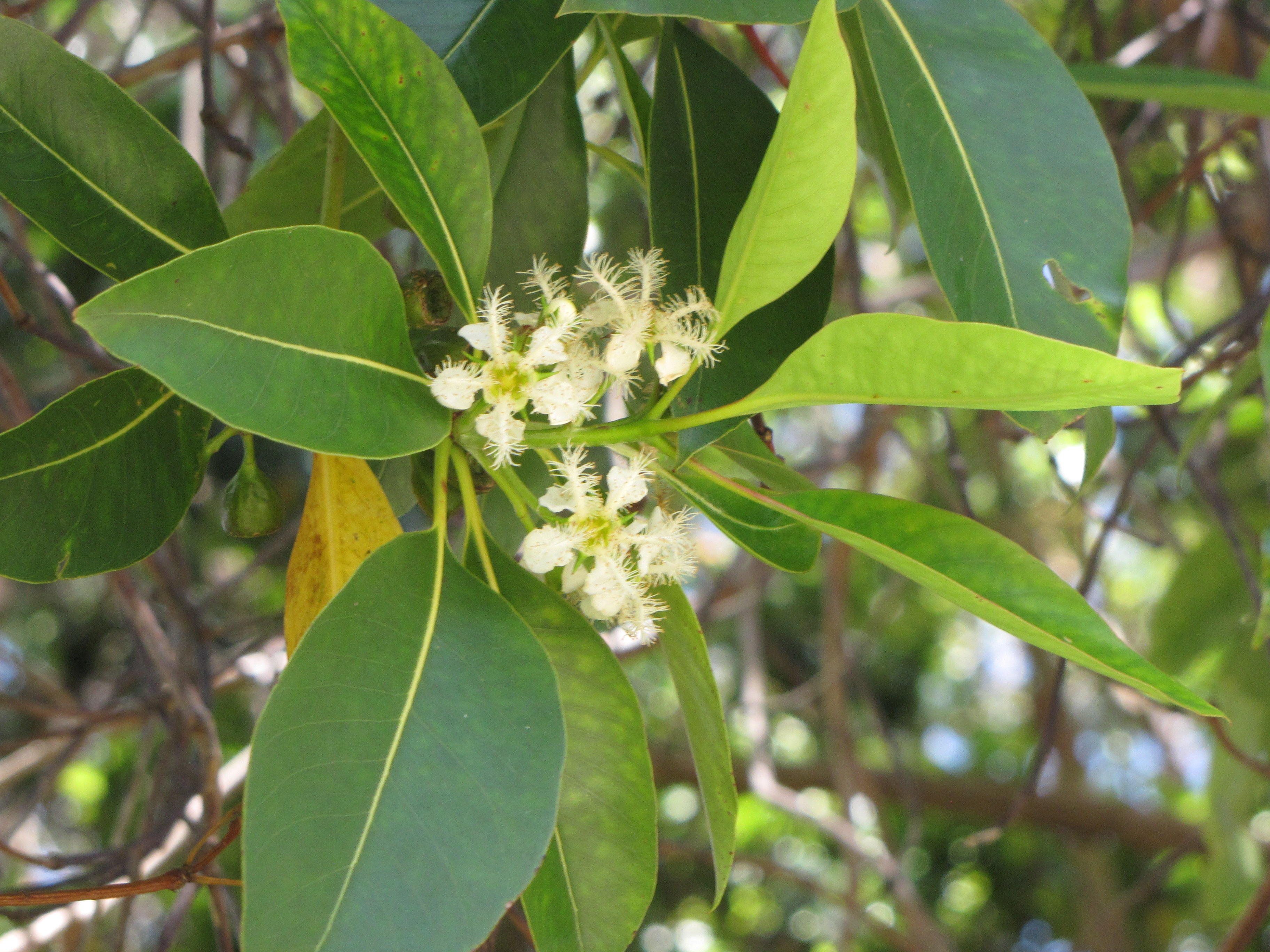 Lophostemon confertus (Brush box, vinegar tree) Flowers and leaves at Ka Hale Olinda, Maui, Hawaii. May 10, 2012 #120510-5685 Image Use Policy